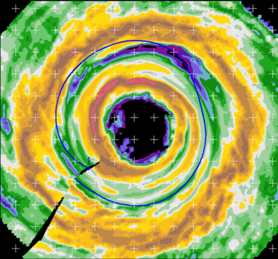 Rita eye